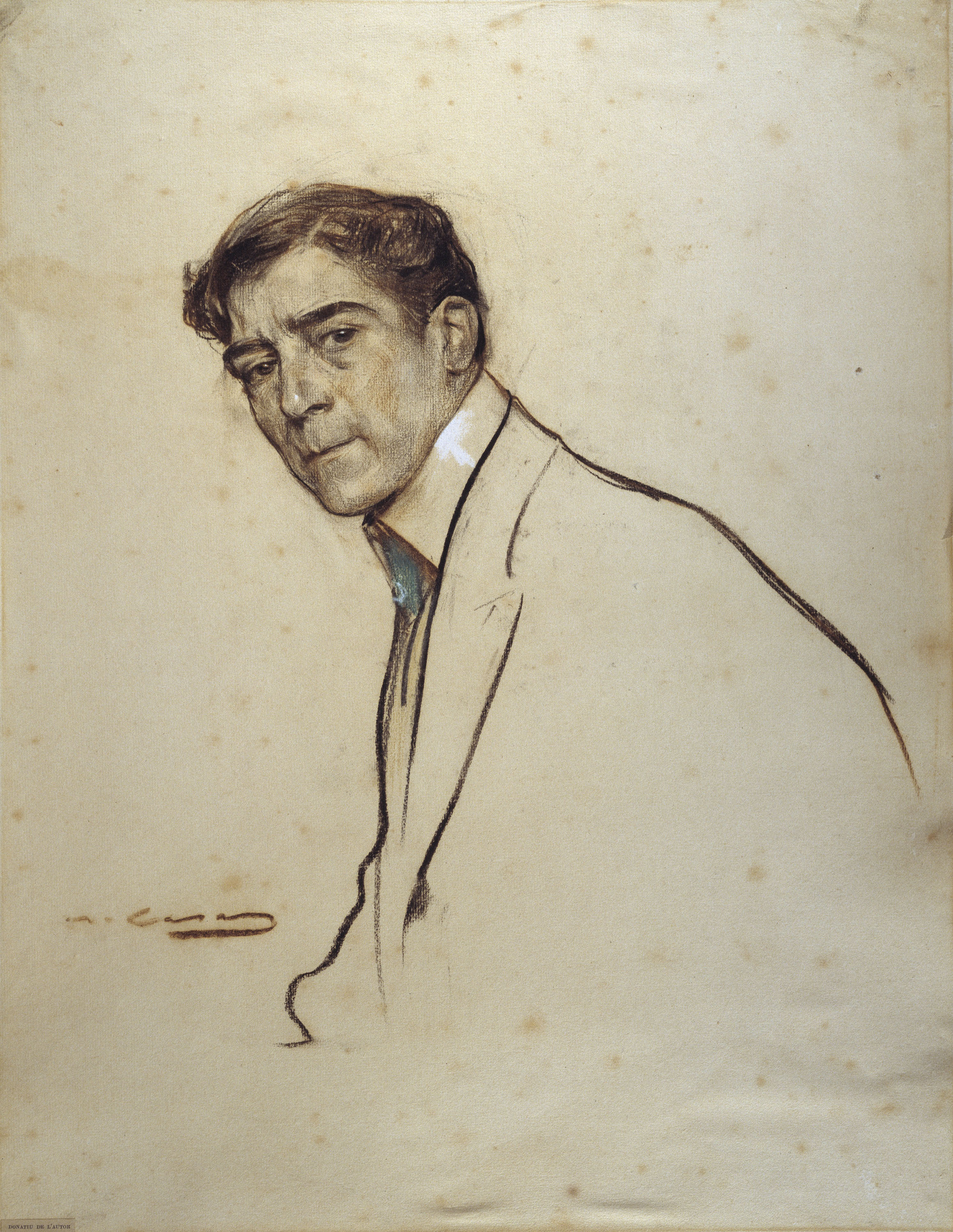 Portrait by Ramon Casas conserved at MNAC in Barcelona. Imagen 124